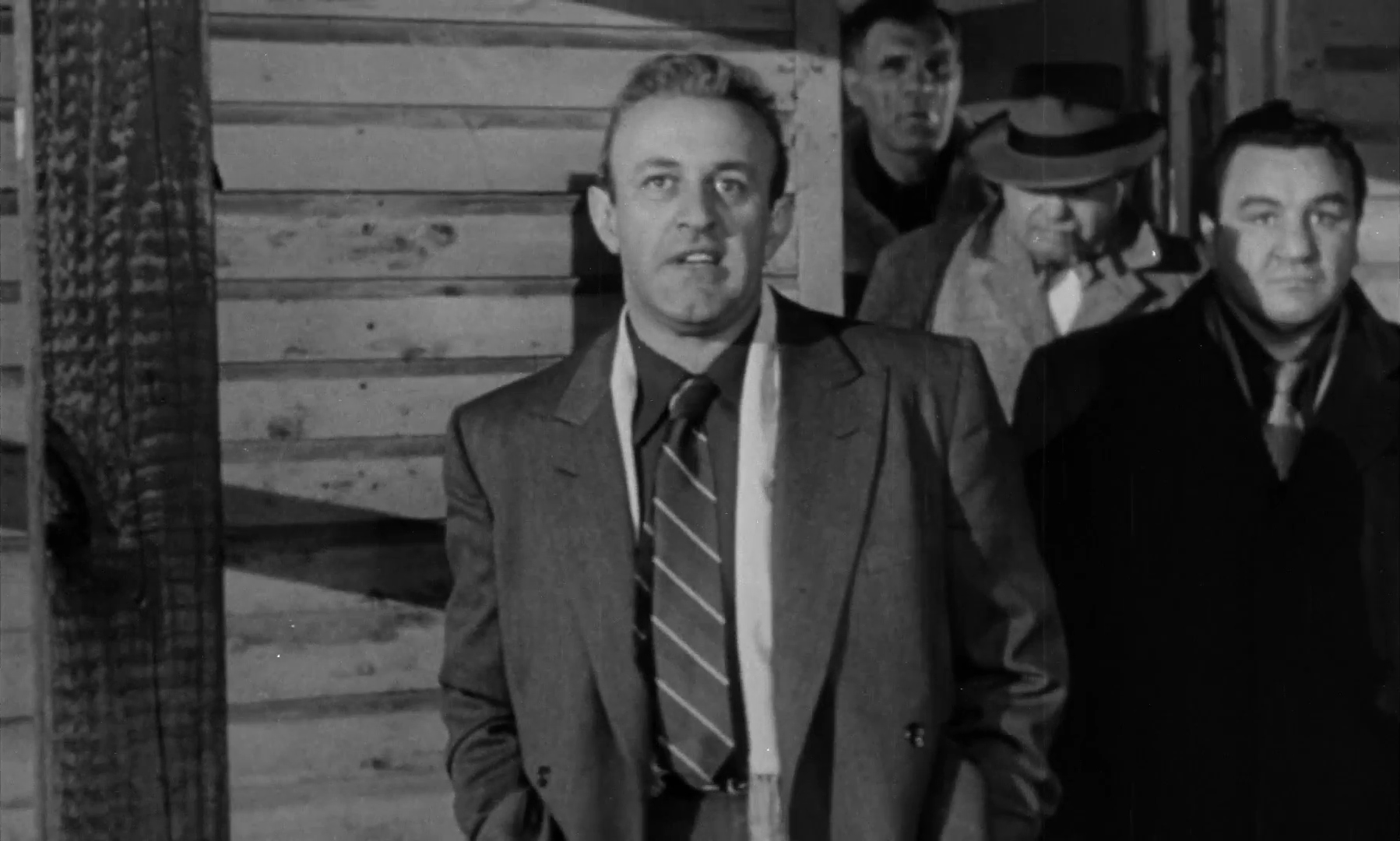 Lee J. Cobb in a screenshot from the trailer for the film On the Waterfront.